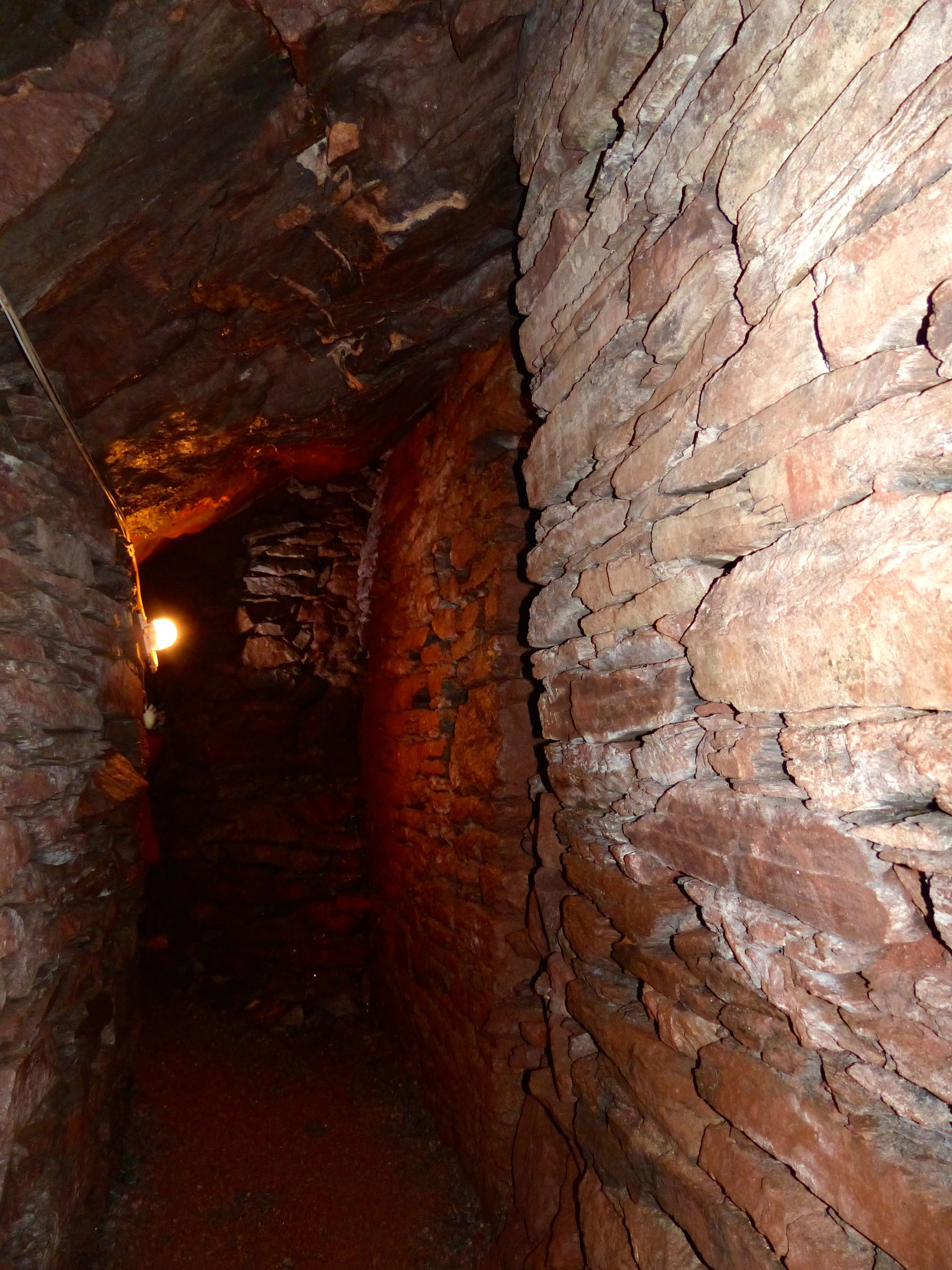 Bergbau im Sauerland The making of this document was supported by the Community-Budget of Wikimedia Germany.